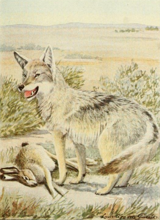 Common or plains coyote.